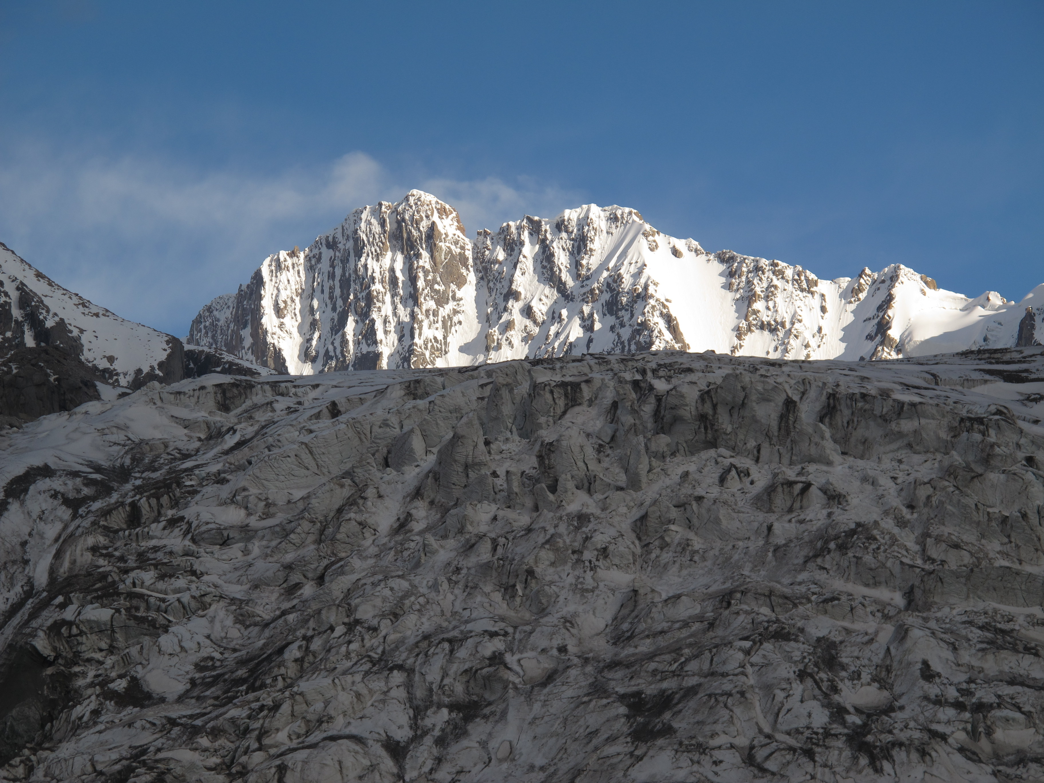 Free Korea peak (4777.6 m) and Ak-Sai icefall